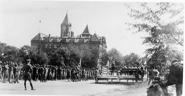 API Cadets drill in Ross Square circa 1917.